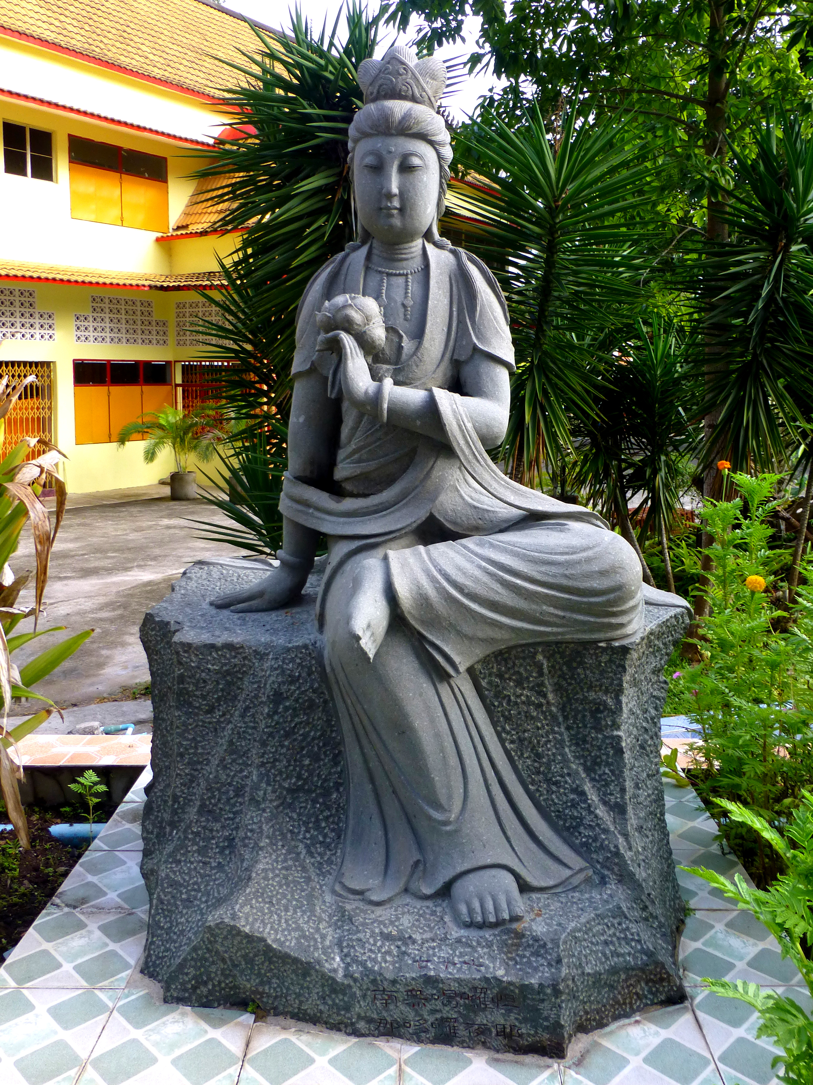 76 na mo he la da na duo la ye ye, Wat Khao Rup Chang, Songkhla, Thailand Photograph from Wat Tham Khao Rup Chang in Songkhla Province, Thailand taken by Anandajoti.